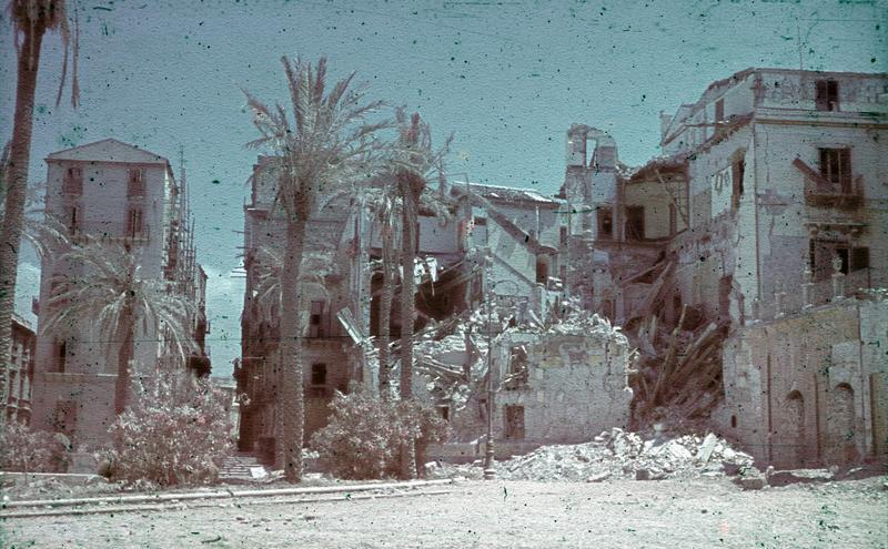 Information added by Wikimedia users. *